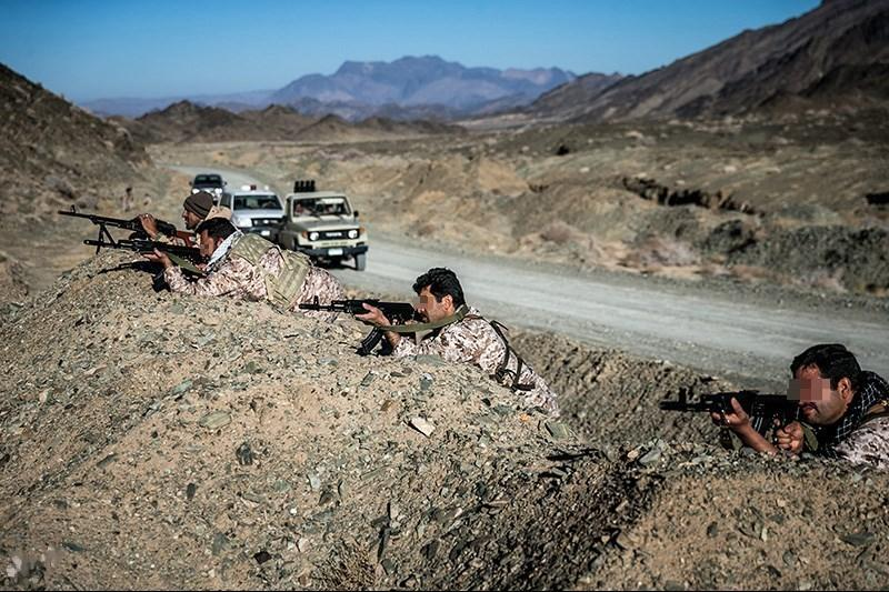 IRGC Ground Force Commandos in Pictures - TEHRAN (Tasnim) – Special unit of the Islamic Revolutionary Guard Corps (IRGC) Ground Force include skillful handpicked members.